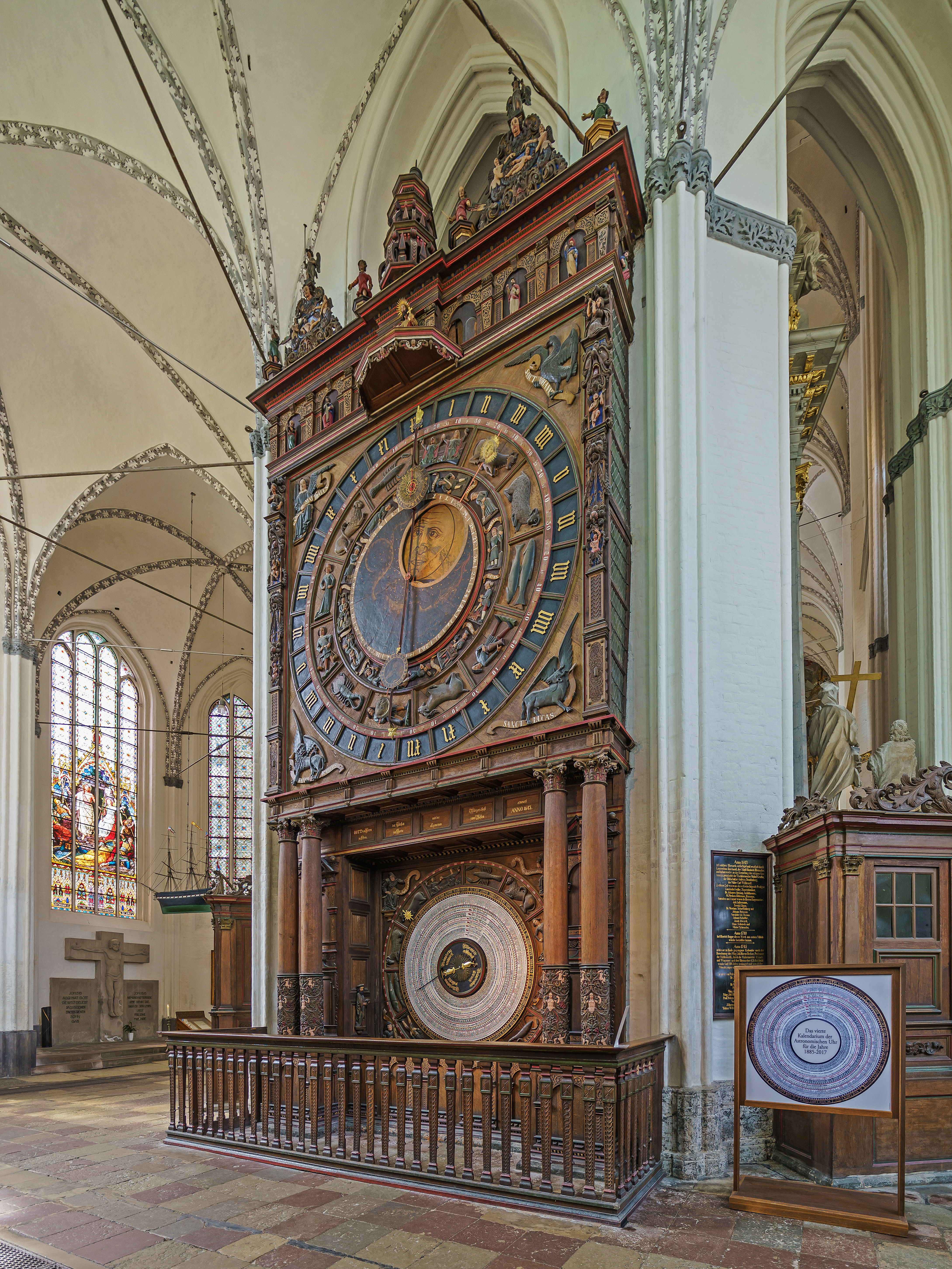 Astronomical clock of St. Mary Church in Rostock, Germany